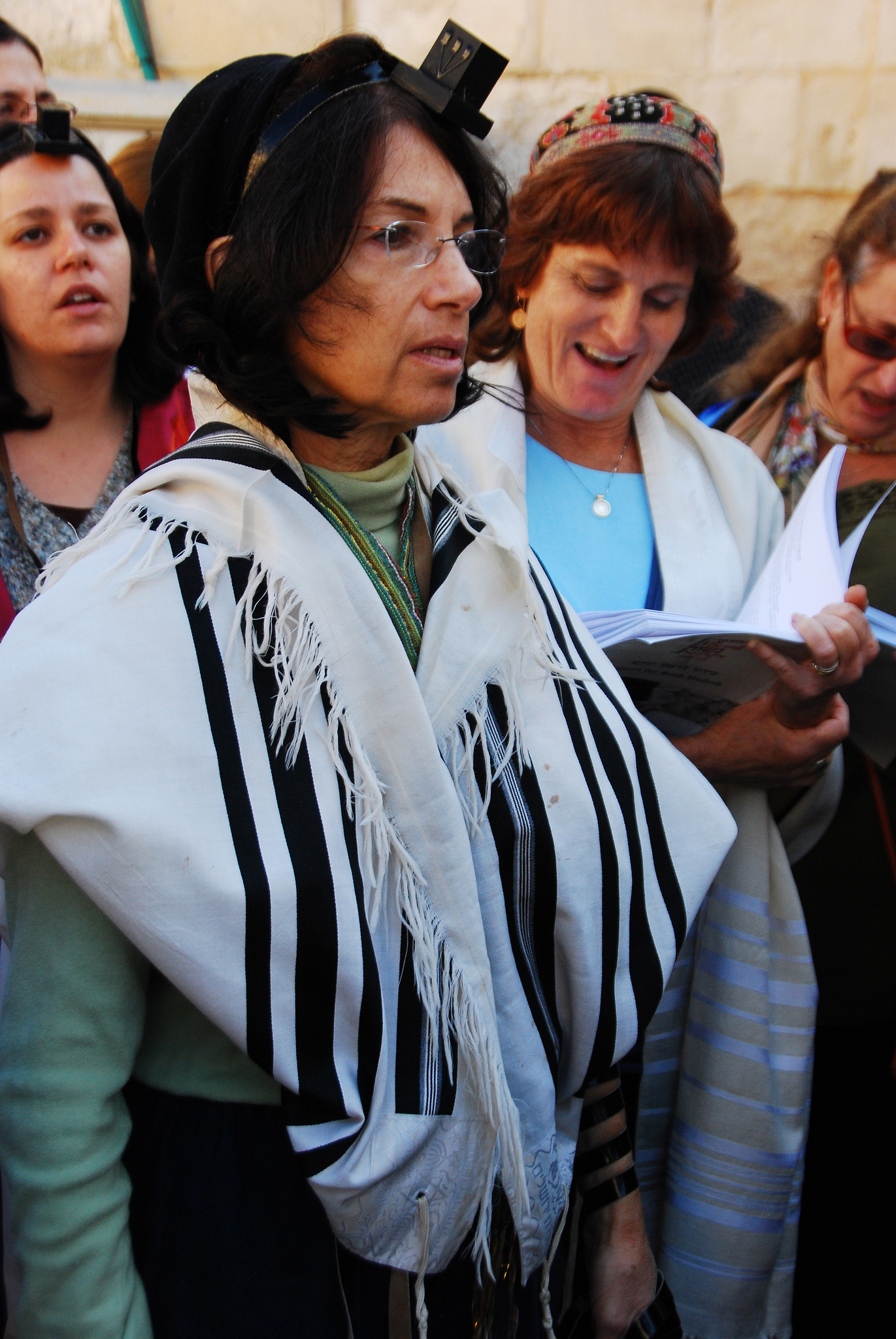 Shulamit Magnus, of Women of the Wall, praying with tallit and tefillin.